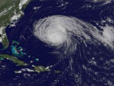 Hurricane Bill approaching Bermuda on August 21, 2009